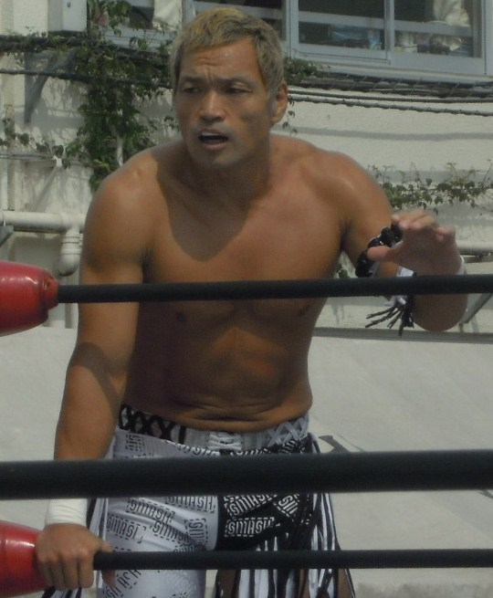 Japanese professional wrestler, AKIRA. Sep 11 2011 SMASH Adachi, Tokyo.